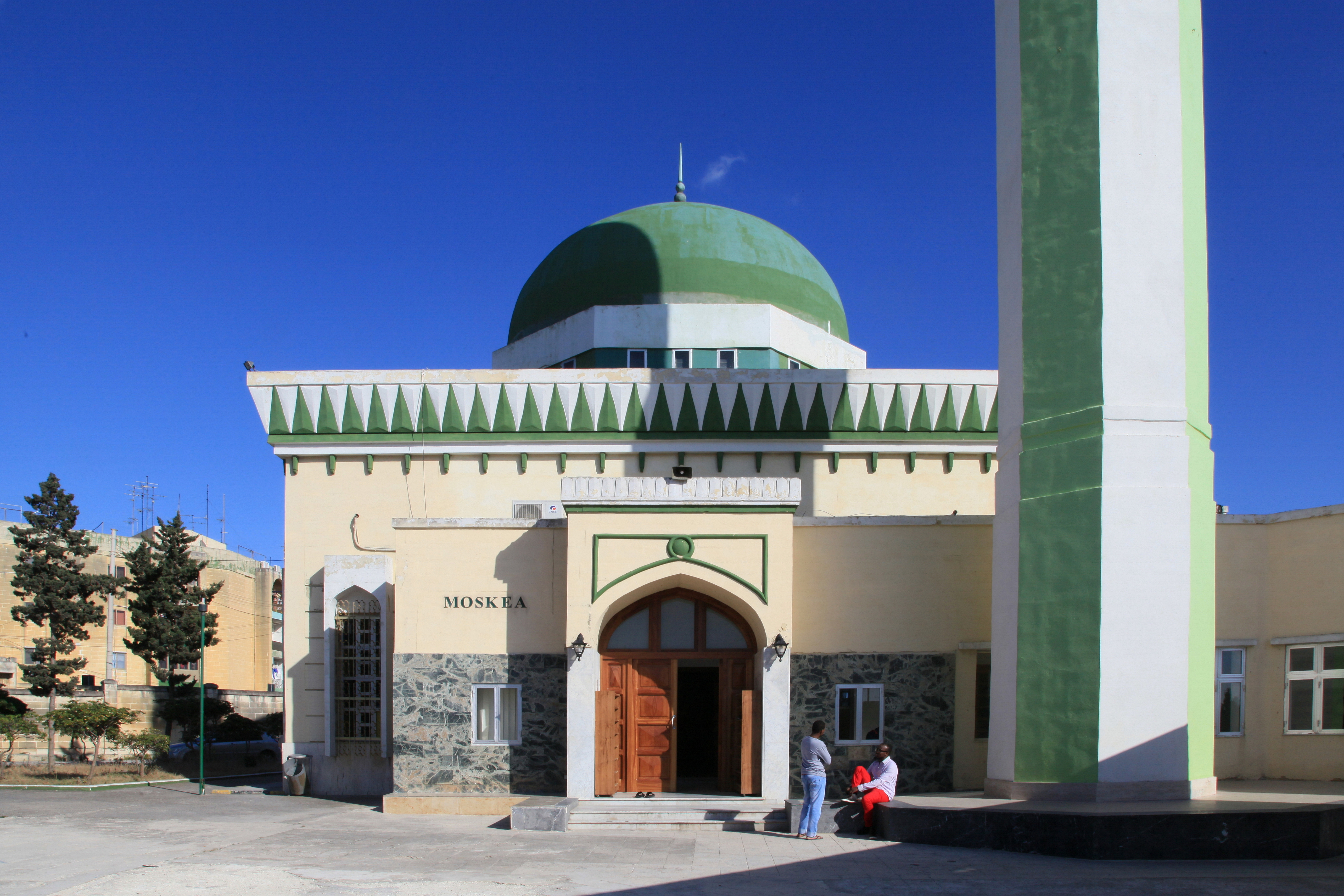 Mariam Al-Batool Mosque at Triq Kordin in Paola, Malta